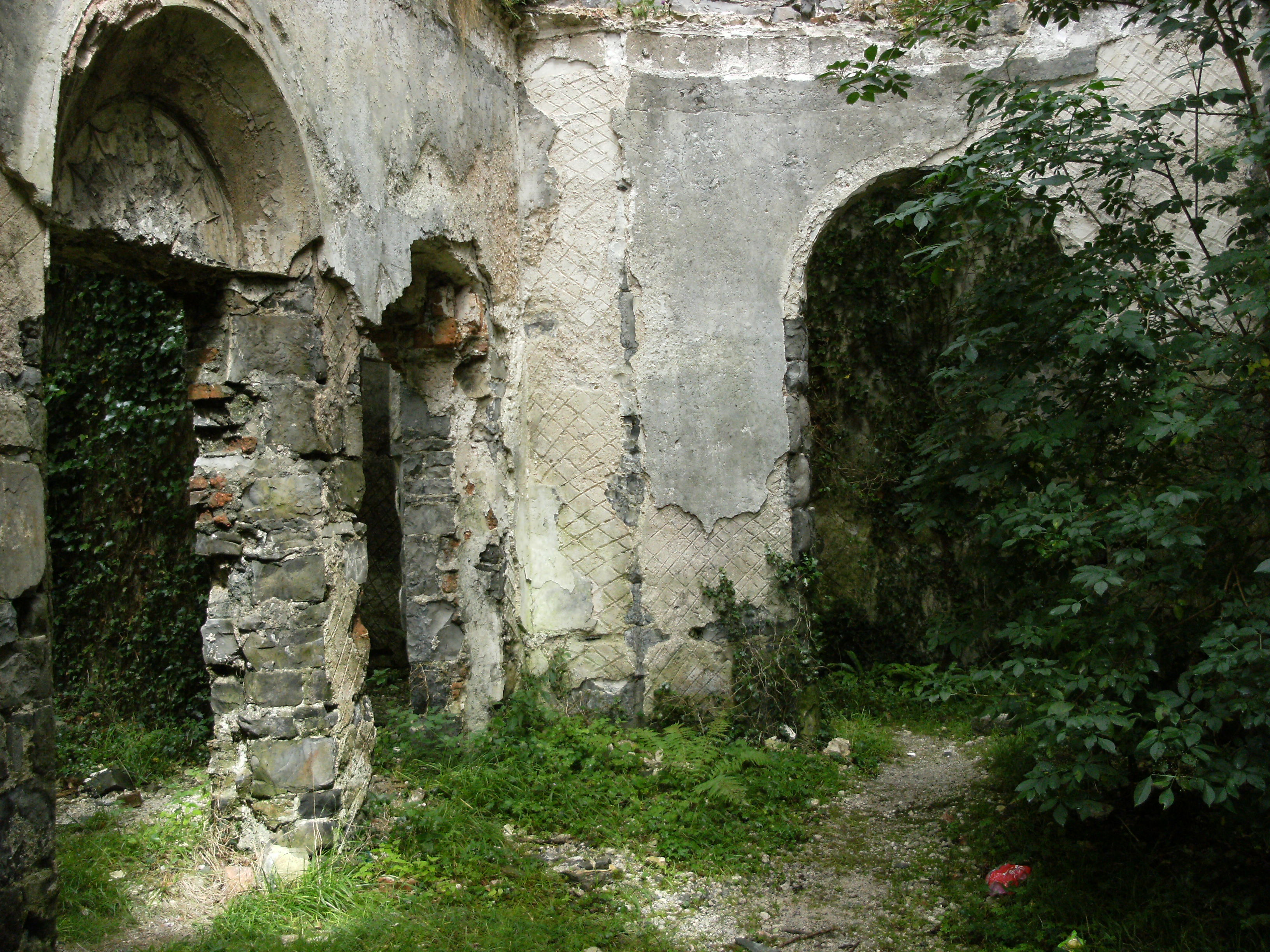 Inside Moore Hall house.